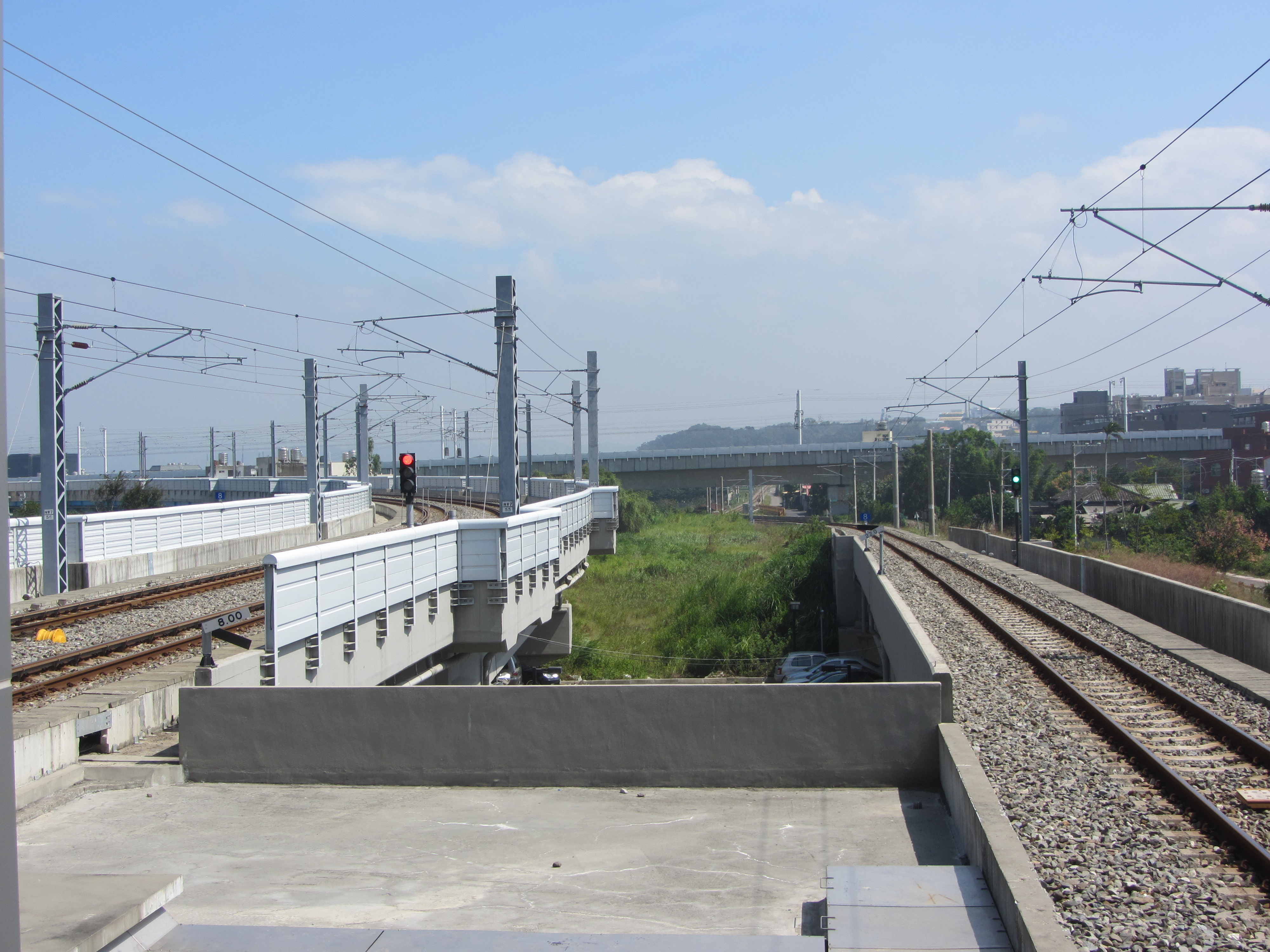 The track on the right is the main line to Neiwan. On the left is the line leading to Liujia Train Station.